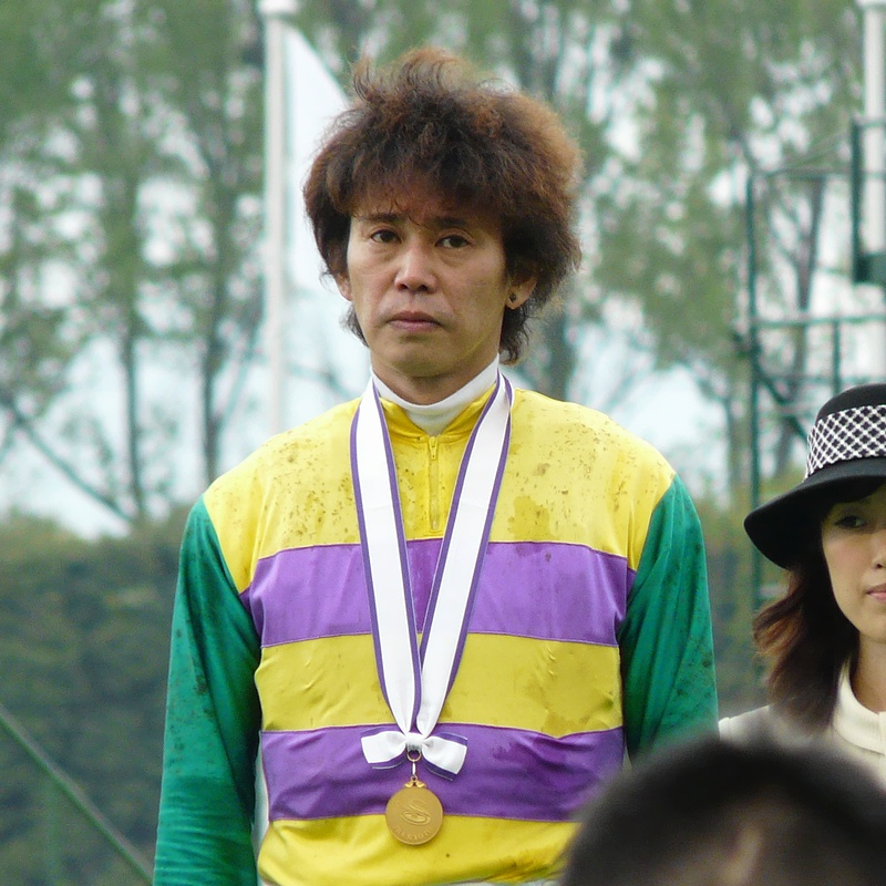 Shinji-Fujita20110501